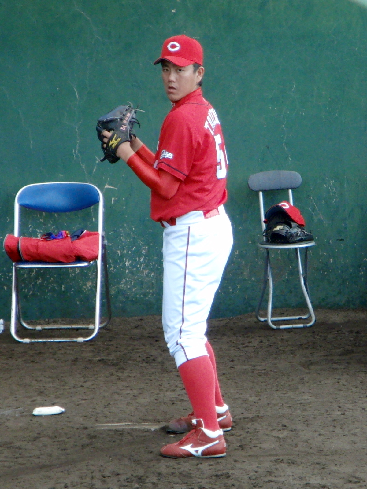 Hisashi Takeuchi, pitcher of the Hiroshima Toyo Carp, at Gannosu Baseball Ground.